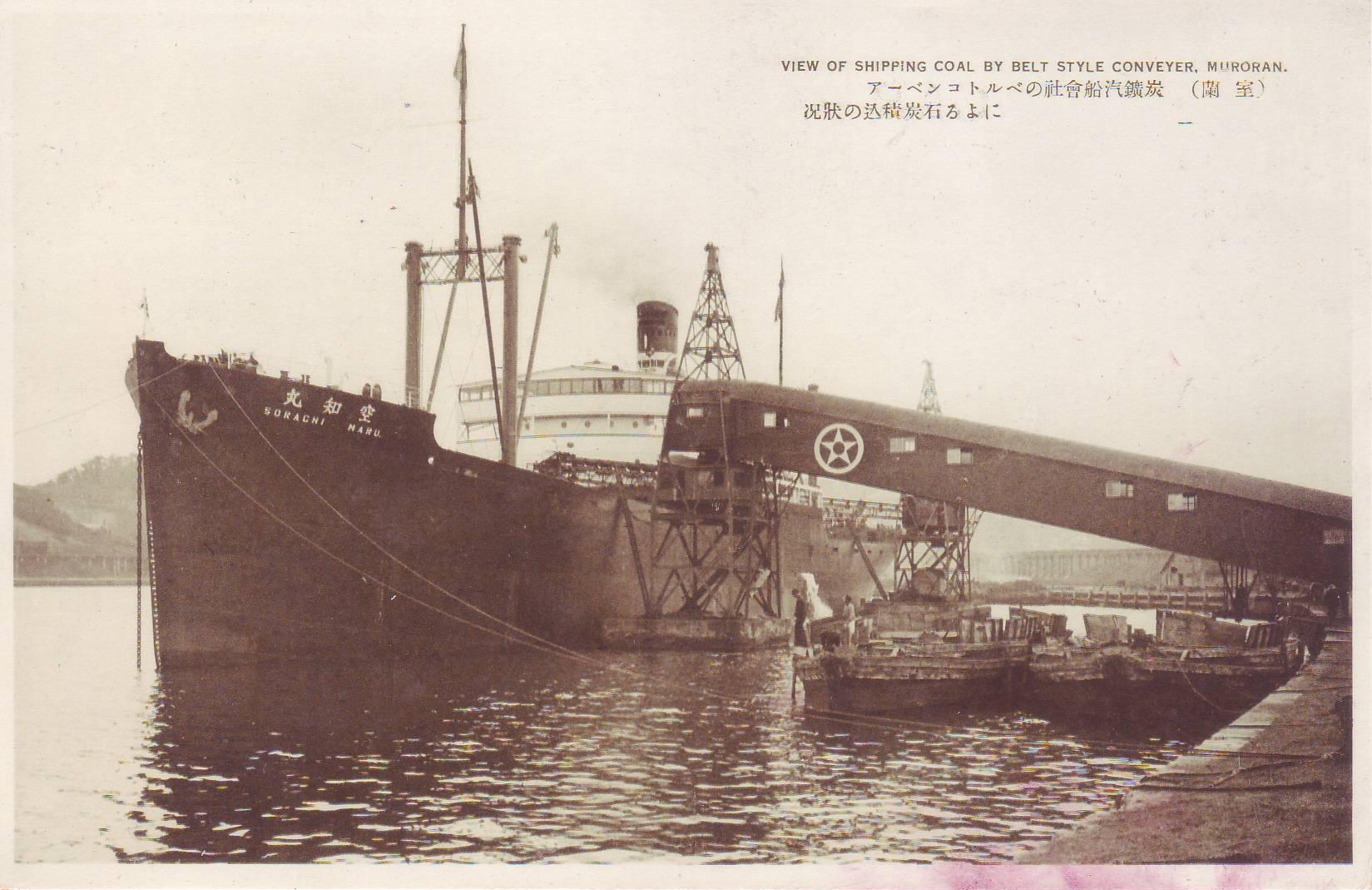 Postcard titled "View of shipping coal by belt style conveyer, Muroran", Ship of Hokkaido Colliery & Steamship "Sorachi Maru" (1930). Postcard of unknown age."Sorachi Maru" was later used as a military transport and was sunk during the Battle of Leyte.